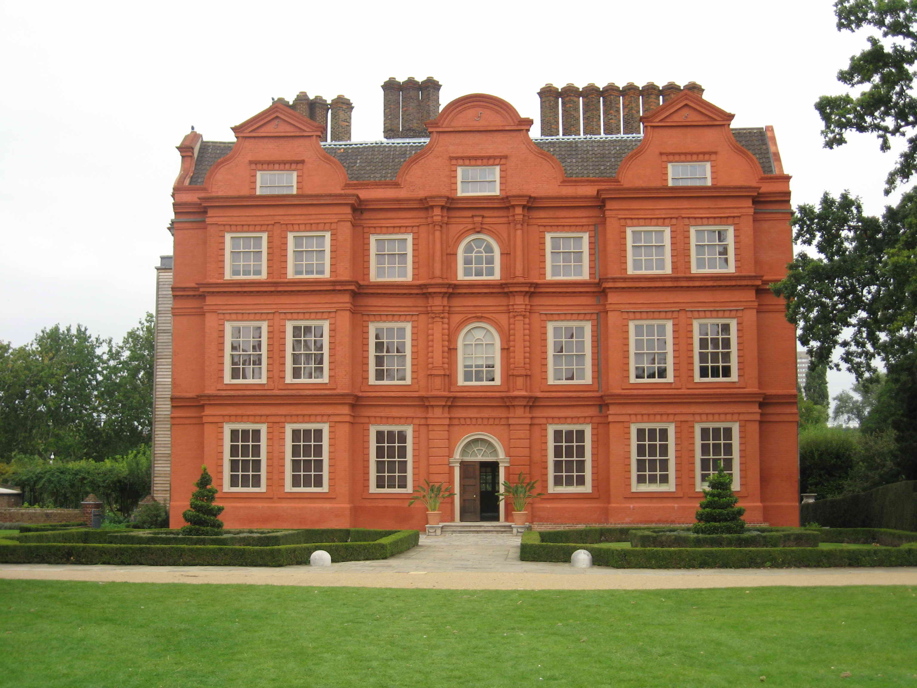 Front view of Kew Palace, in Kew Gardens, London. Formerly called the Dutch House, it was a residence of King George III and Queen Charlotte of Mecklenburg-Strelitz.